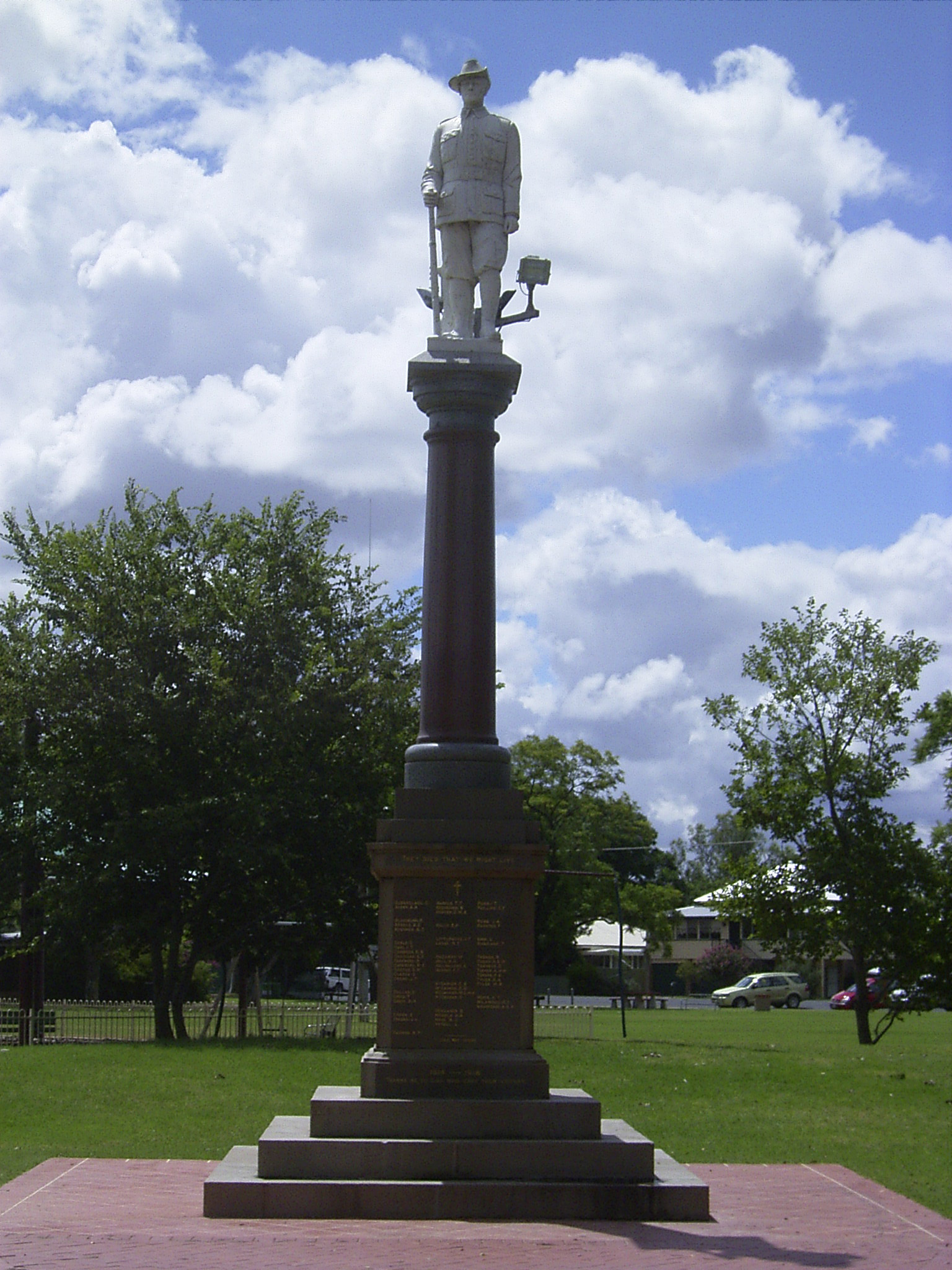 War Memorial Moument in the War Memorial Park in the town of Goondiwindi, Queensland.